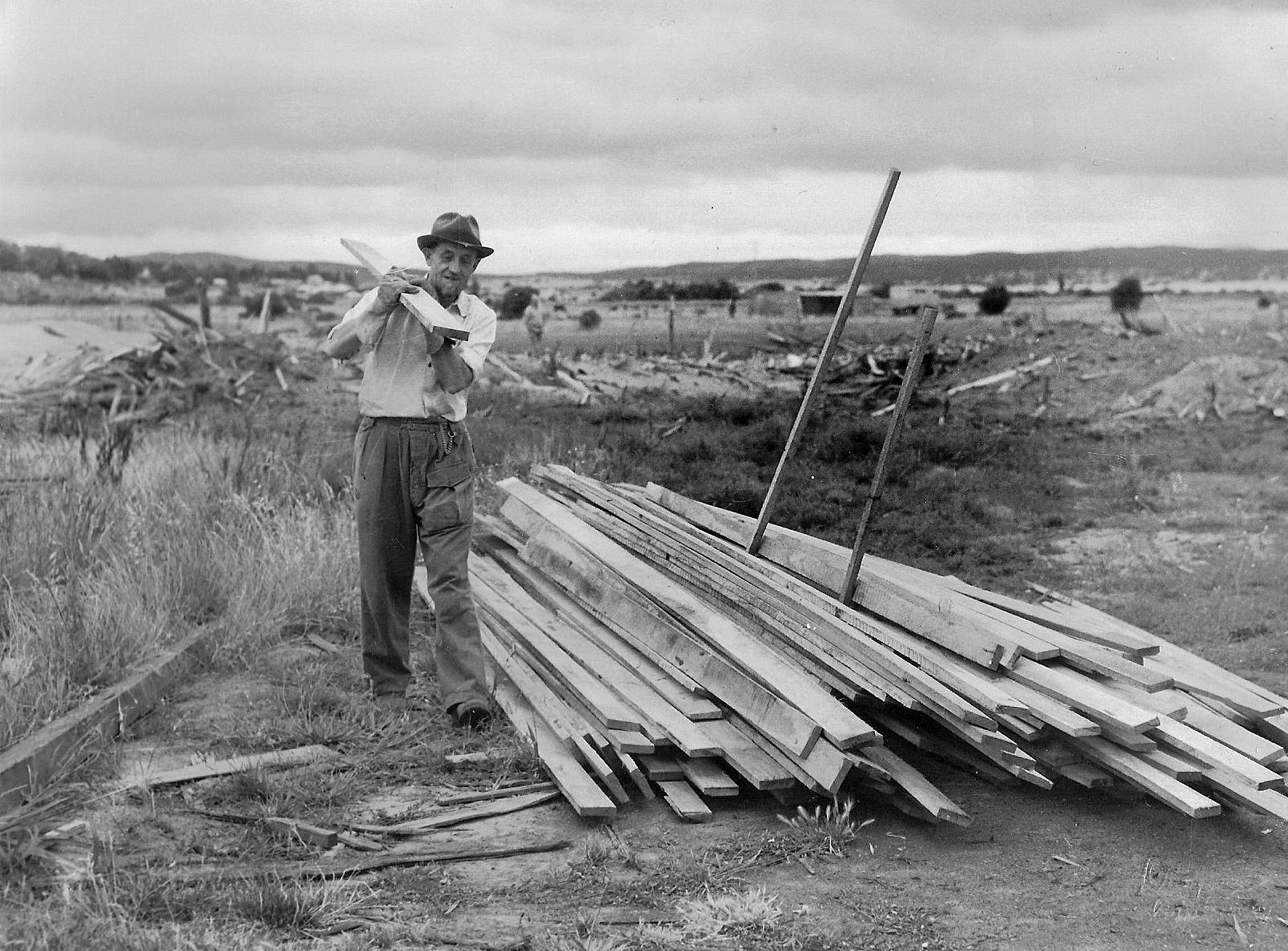 Ukrainian Orthodox priest Father Ananij Teodorowycz working as a laborer at a government timber mill in Kingston (Canberra) as part of his 2 year contract for "assisted passage" to Australia.